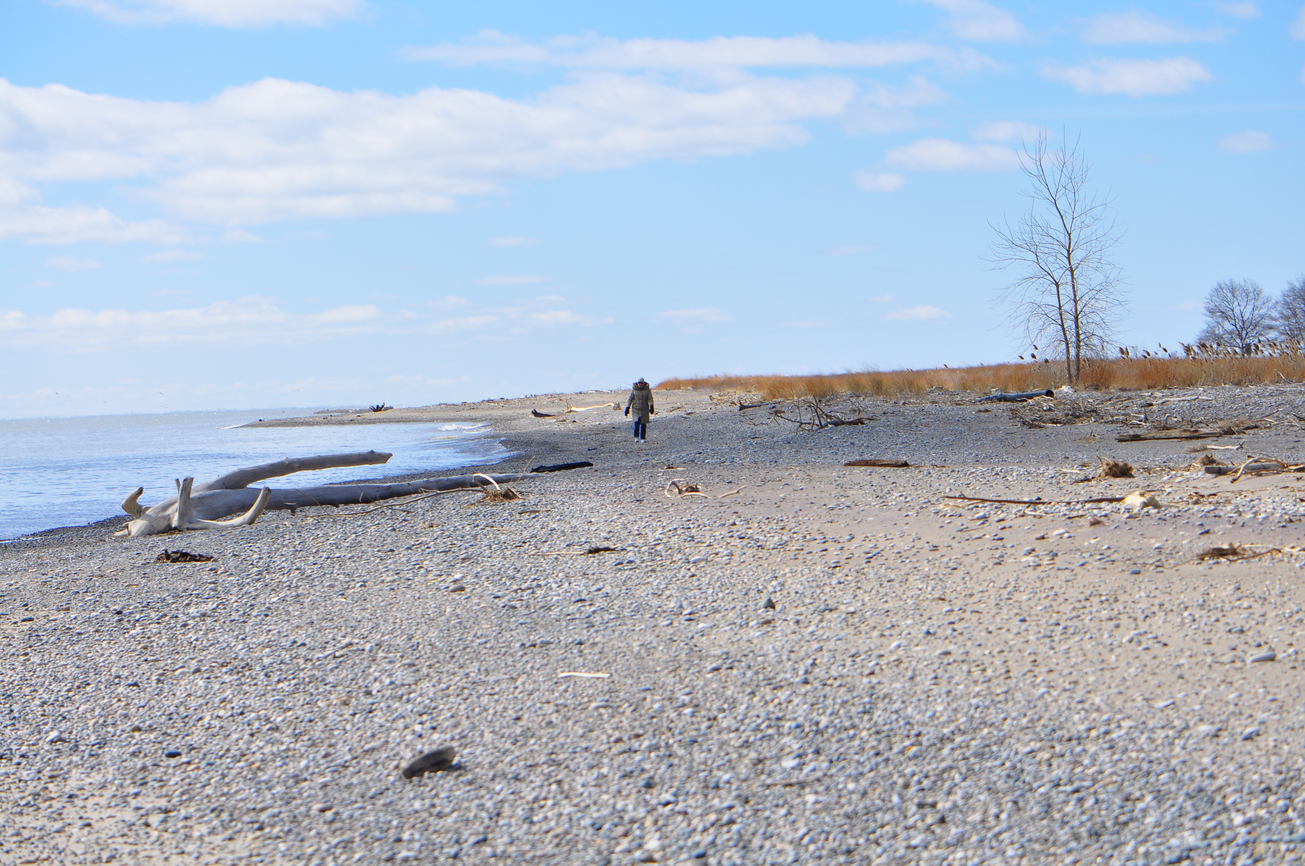 Rondeau Park Beach after sgtorm facing toward the tip